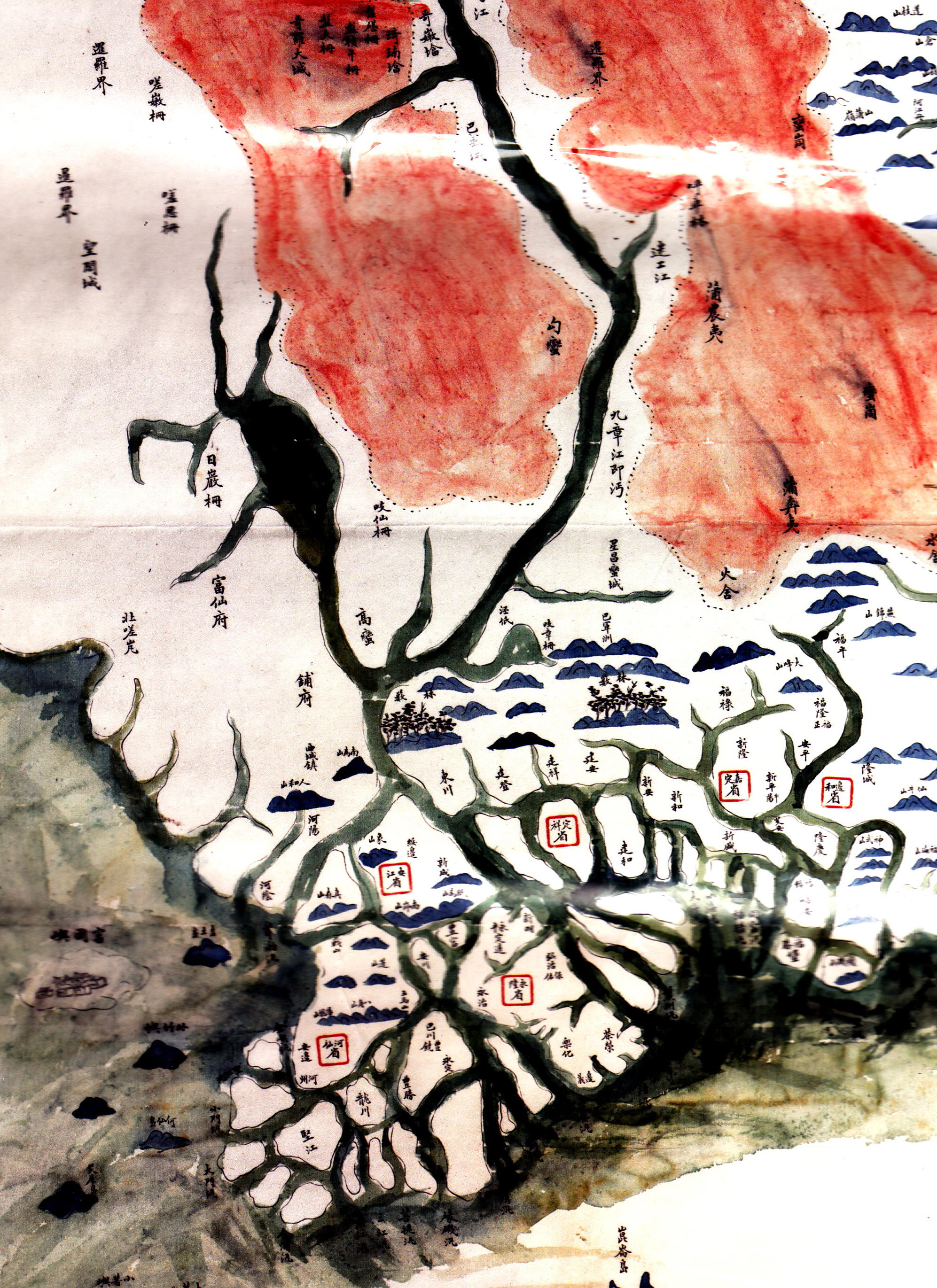 Map of Viet-Nam dated 1899